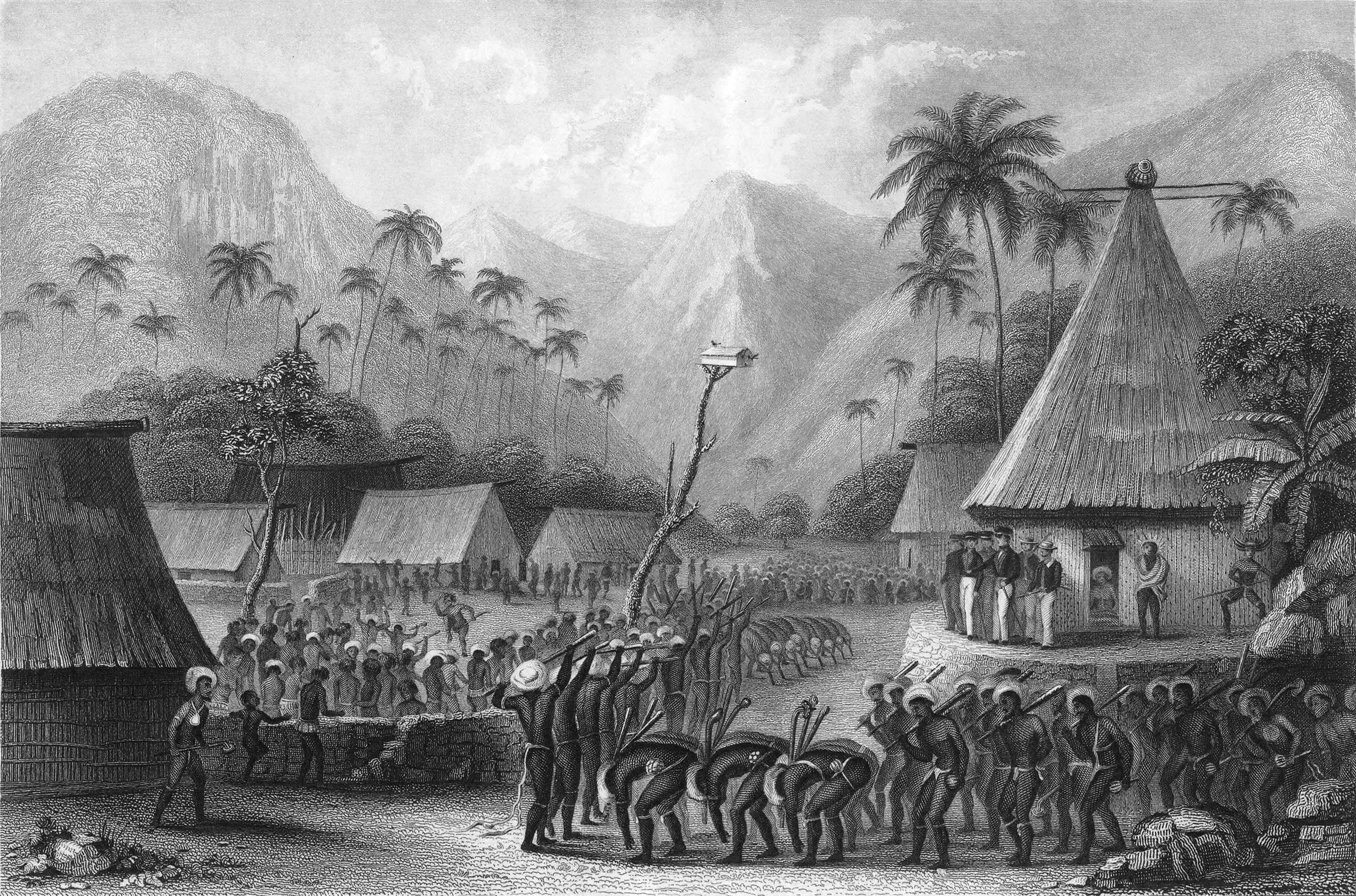 Illustration from the book "Twenty years before the mast" by Charles Erskine. Between pages 144-145.